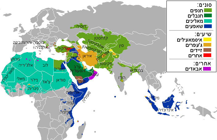 The distribution of the predominant Islamic madhhab (school of law) followed in majority-Muslim countries and regions (Hebrew)